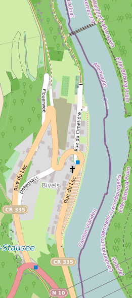 Map of the village of Bivels, Luxembourg.